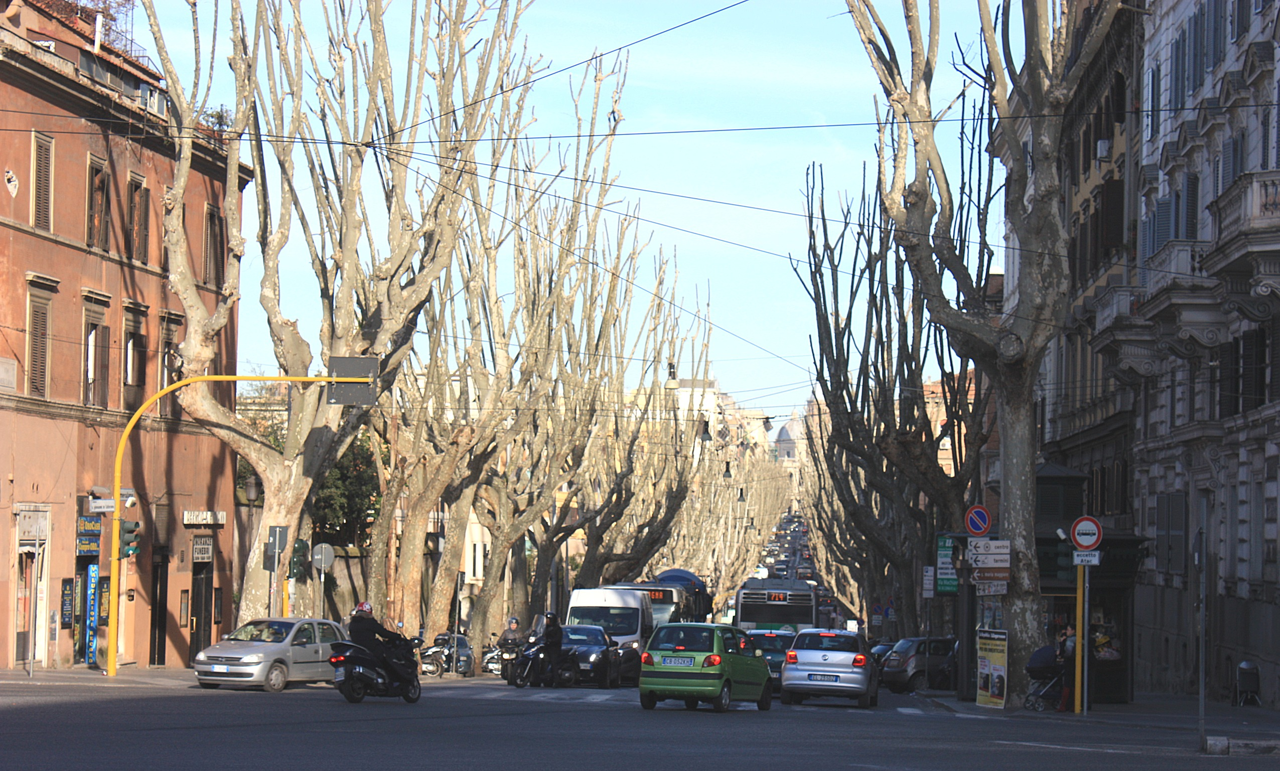 Rome, the street Via Merulana